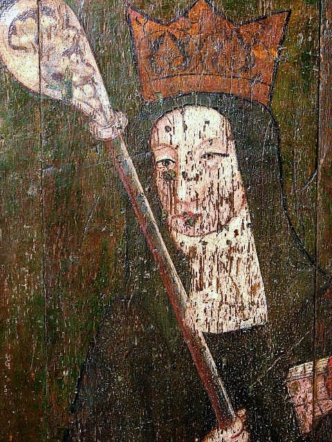 The church of St Nicholas - rood screen detail